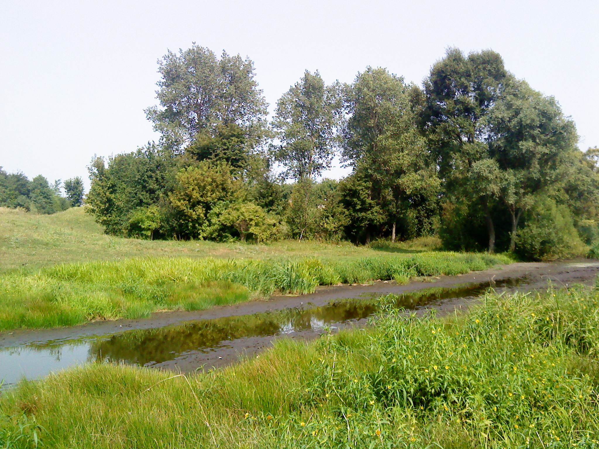 Creek on the hamlet Kulikivka in the village Voskresinske, Konotop district, Sumy region, Ukraine.